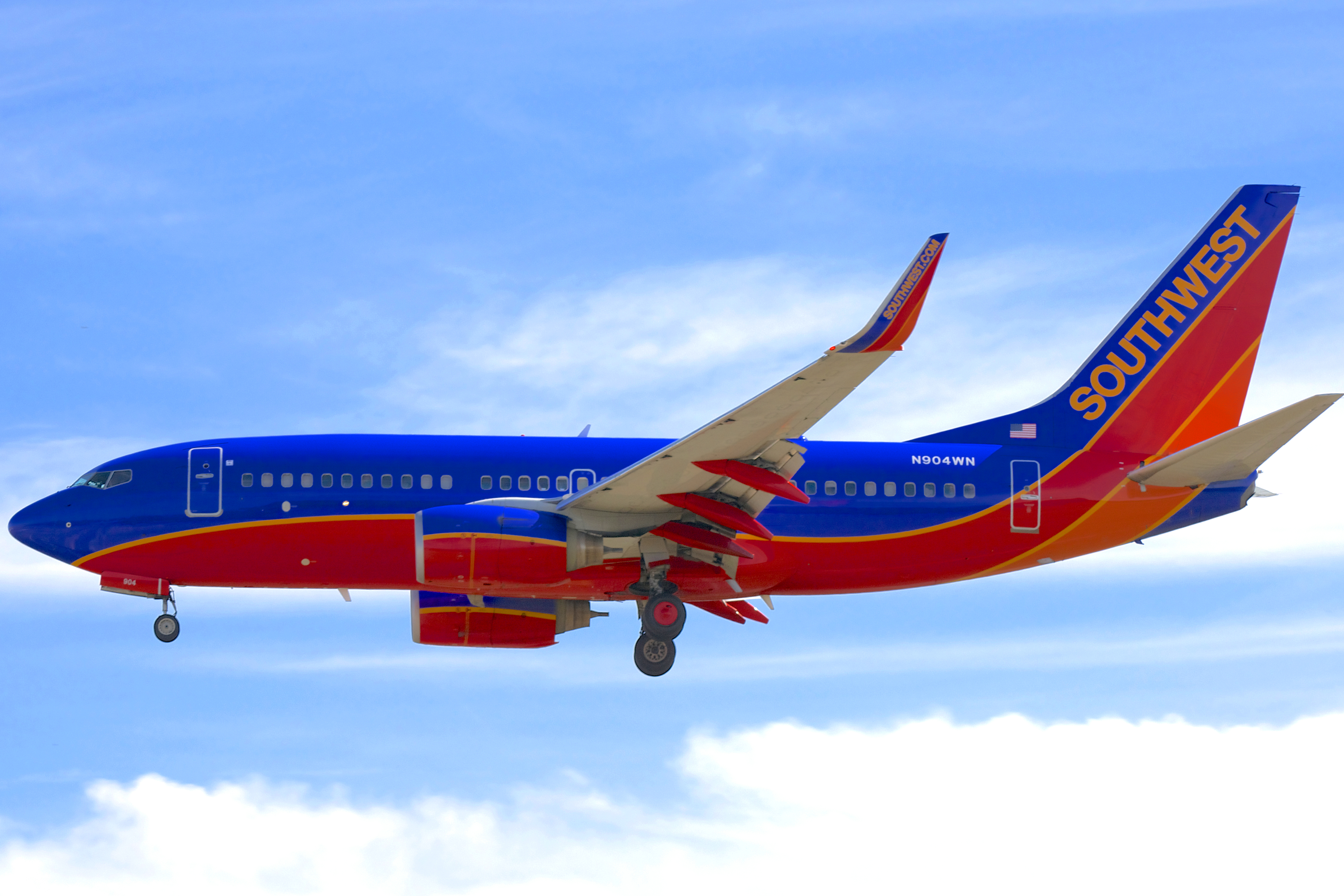 Boeing 737-700 of Southwest Airlines N904WN at BWI.